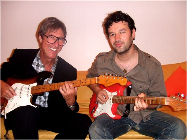 Miss Daisy with Hank Marvin and owner Jean-Pierre Danel.